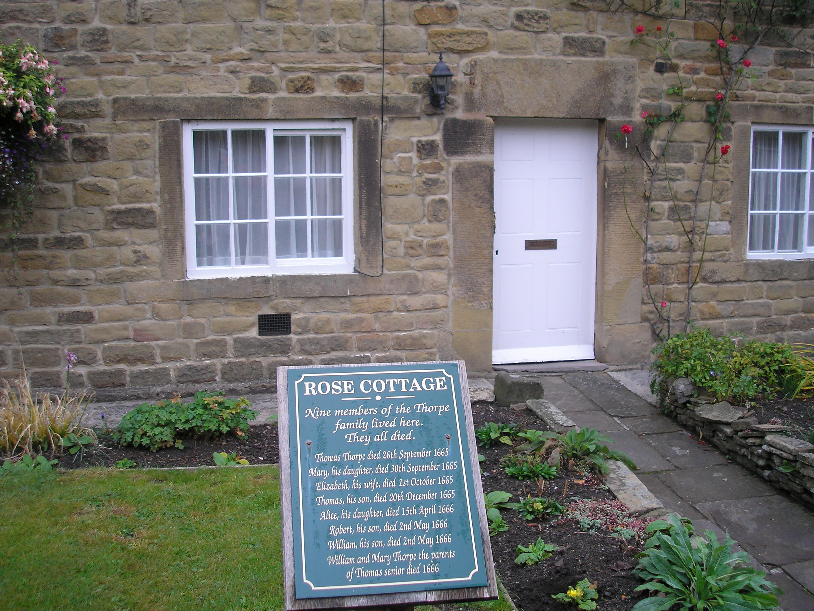 Rose Cottage one of the plague cottages at Eyam village with plaque